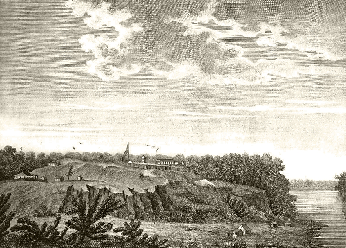 "View of the Fort of the Natchez", from Georges Henri Victor Collot's Voyage dans l'Amérique Septentrionale, ou Description des pays arrosés par le Mississipi, l'Ohio, le Missouri. Originally published in 1796.